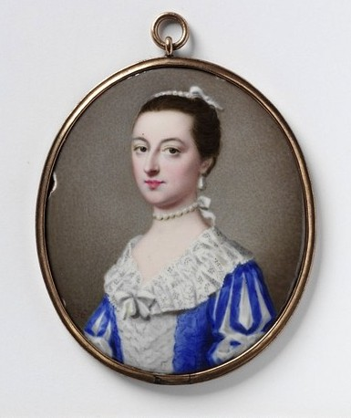 Portrait miniature of an unknown woman, dated 1756, enamel on metal, painted by Gervase Spencer (d. 1763), Height: 48 mm, Width: 40 mm